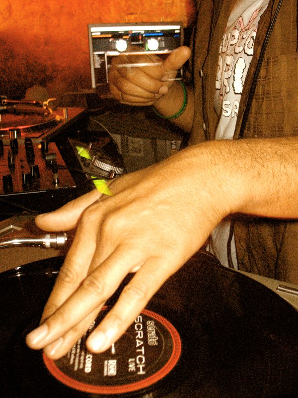 Very nice party with smooth tripping and reggae beats at Sidarta East-West Lounge . With DJ e.a.s.e. (Nightmares on Wax) . He is working with some Final-Scratch-System, by the way....